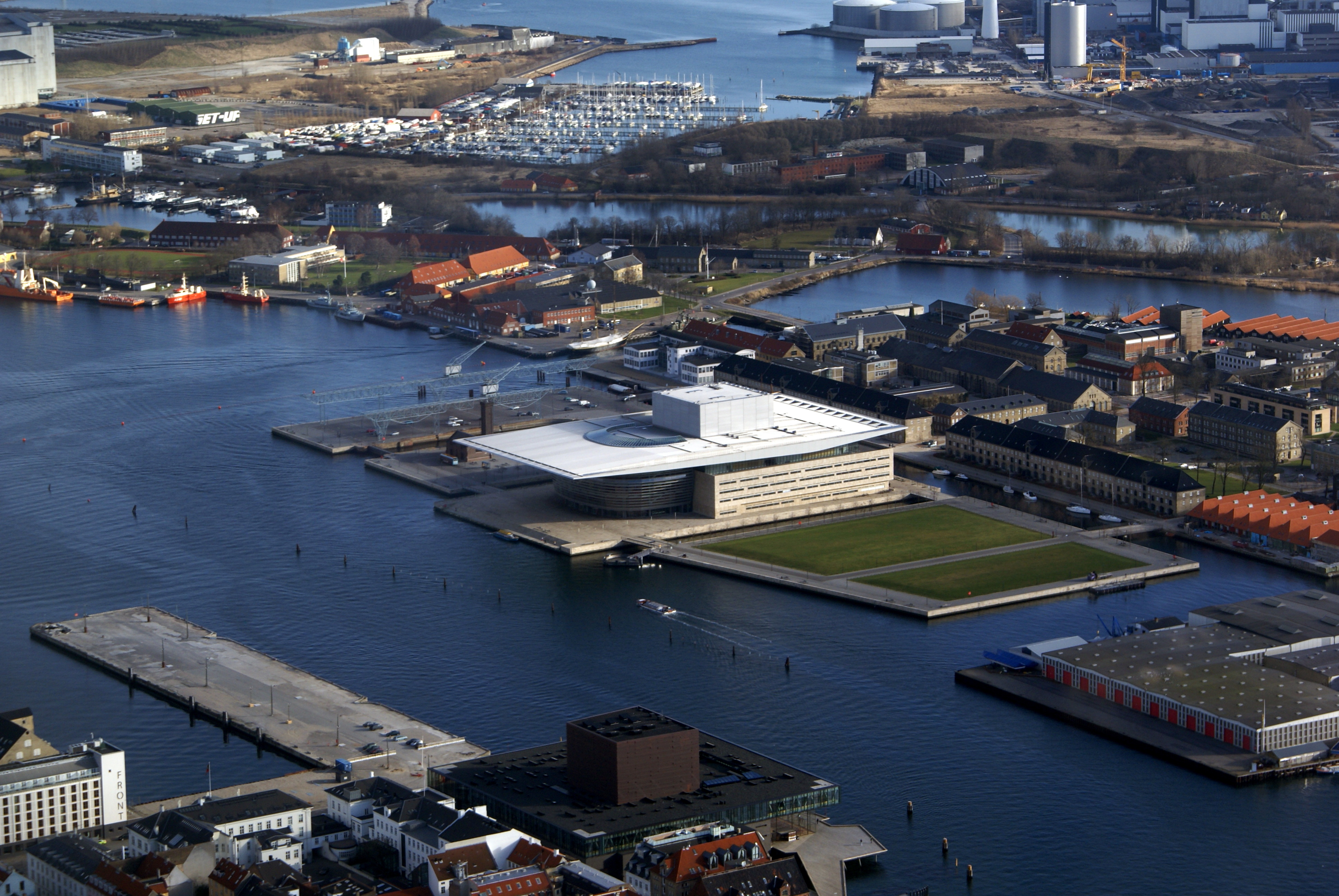 The opera of Copenhagen, Denmark.